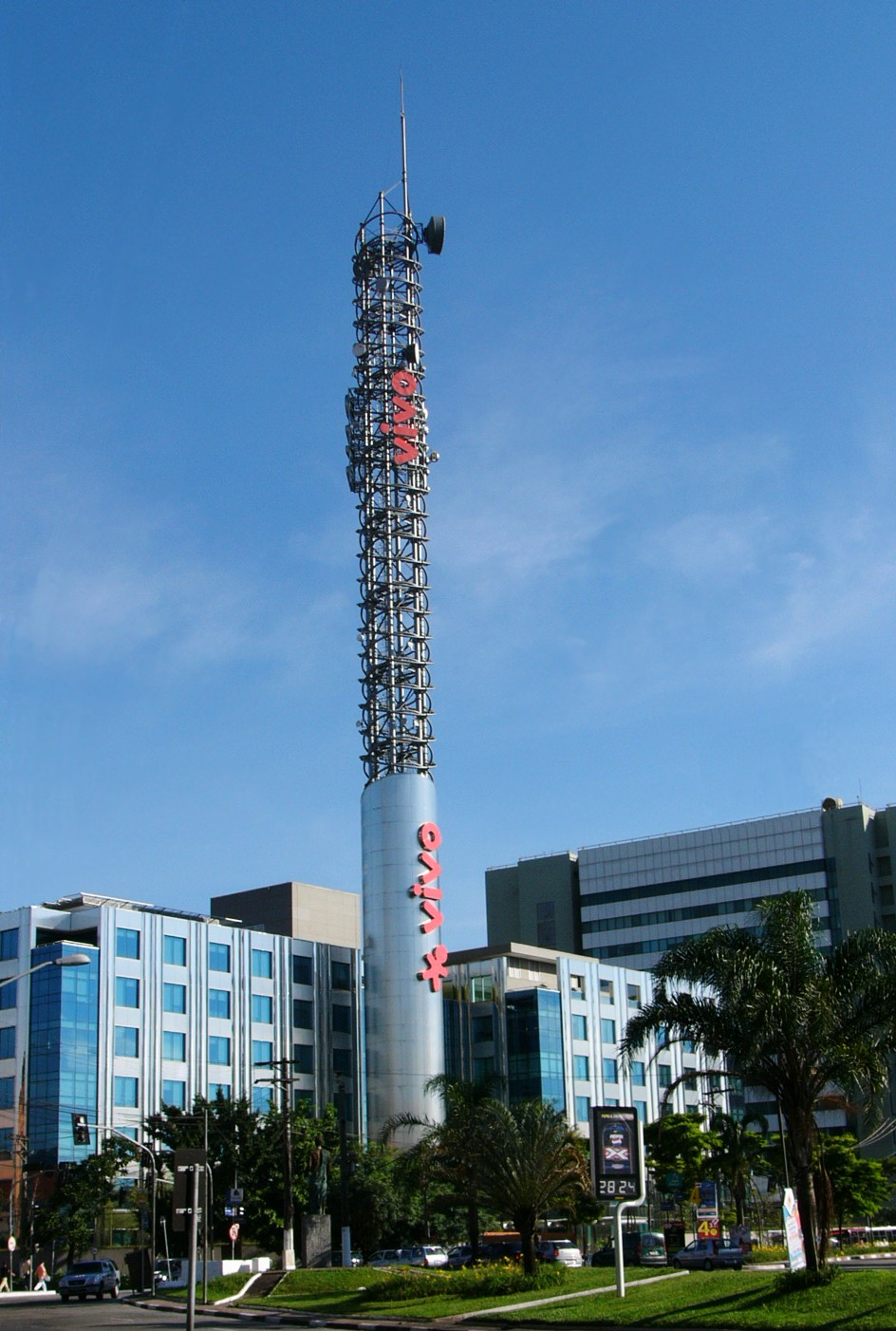 The headquarters of Vivo in the neighborhood of Vila Gertrudes in Sao Paulo